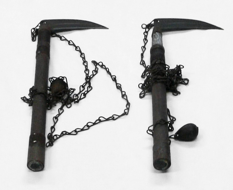 A kusarigama, as on display in Iwakuni Castle, Japan photographer = uploader